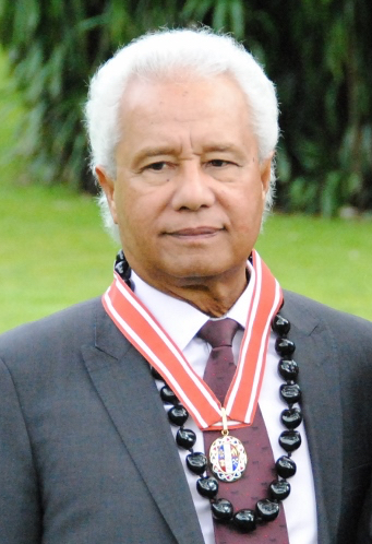 Albert Wendt, after his investiture as a Member of the Order of New Zealand, on 4 September 2013